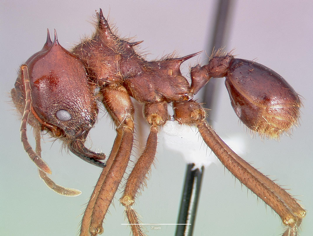 Profile view of ant Atta mexicana specimen casent0421377.